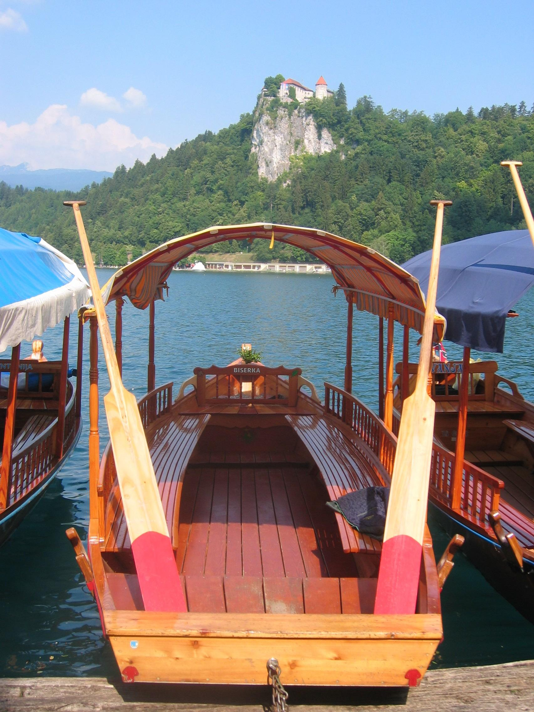 Boat called "pletna" at Bled lake, Slovenia. photo:Ziga 08:35, 13 August 2006 (UTC)